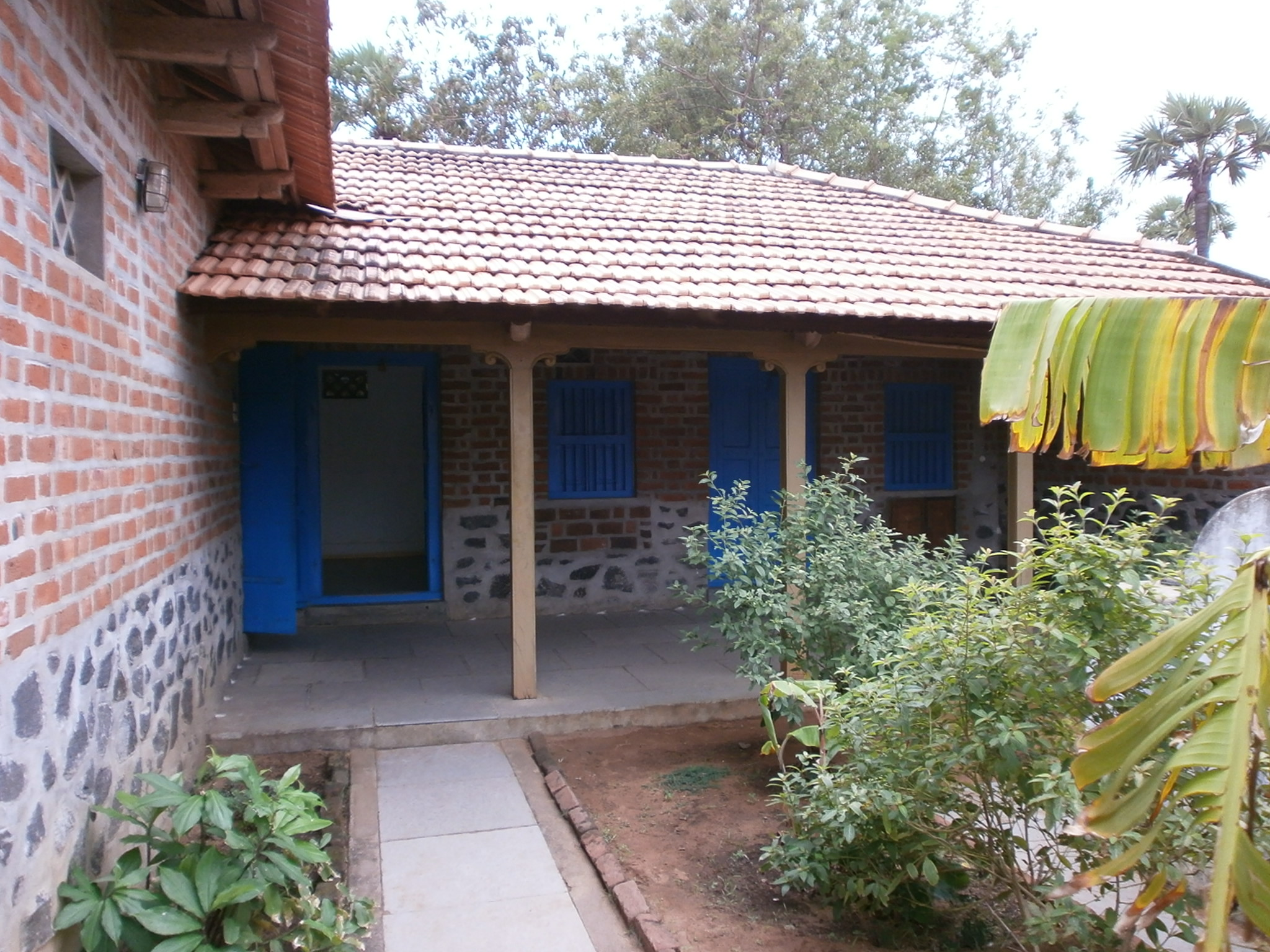 Dakshina-Chitra-Andhra-House